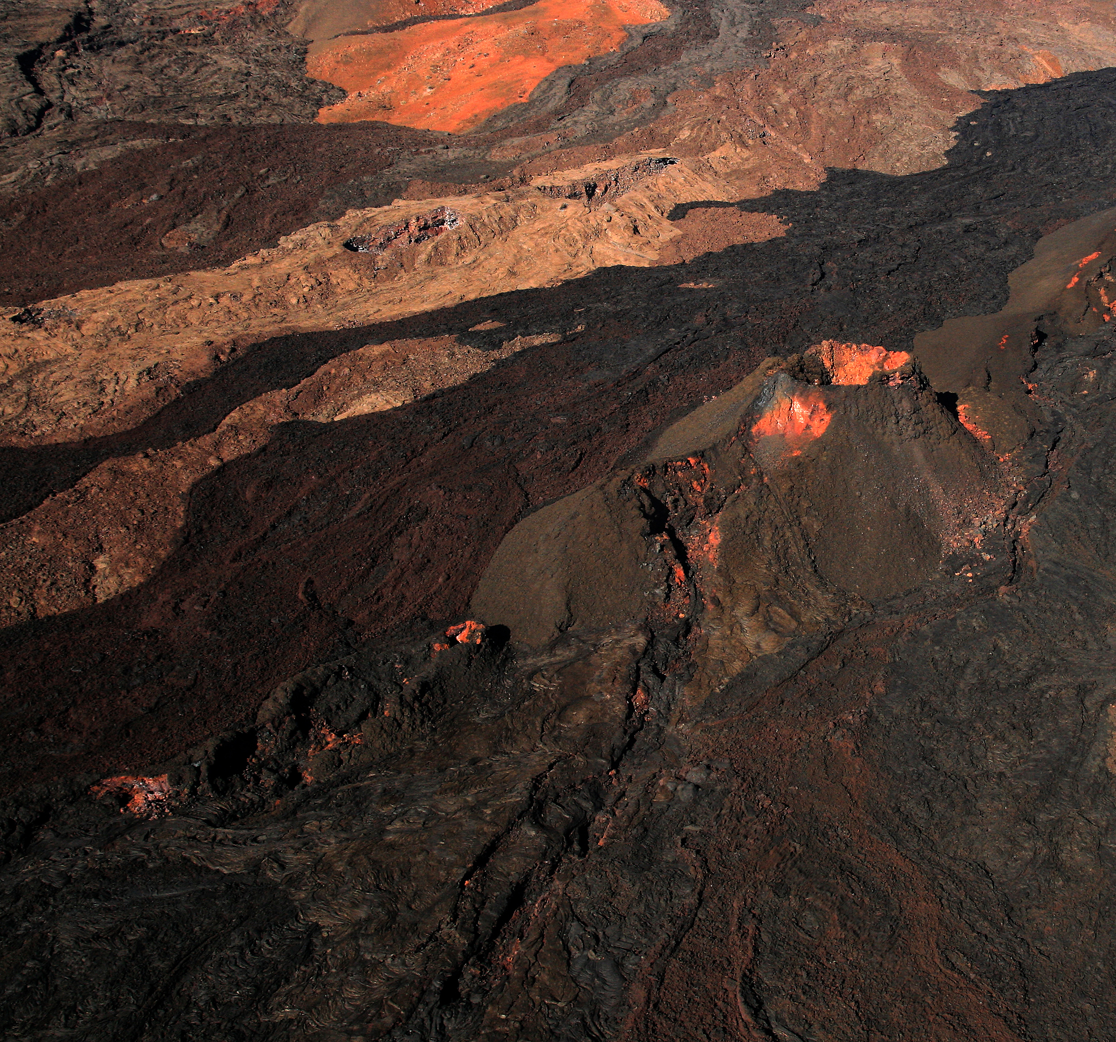 Mauna Loa from the air. The lava flows of different colors and fissure vent are seen at the image. The image was taken from a helicopter.